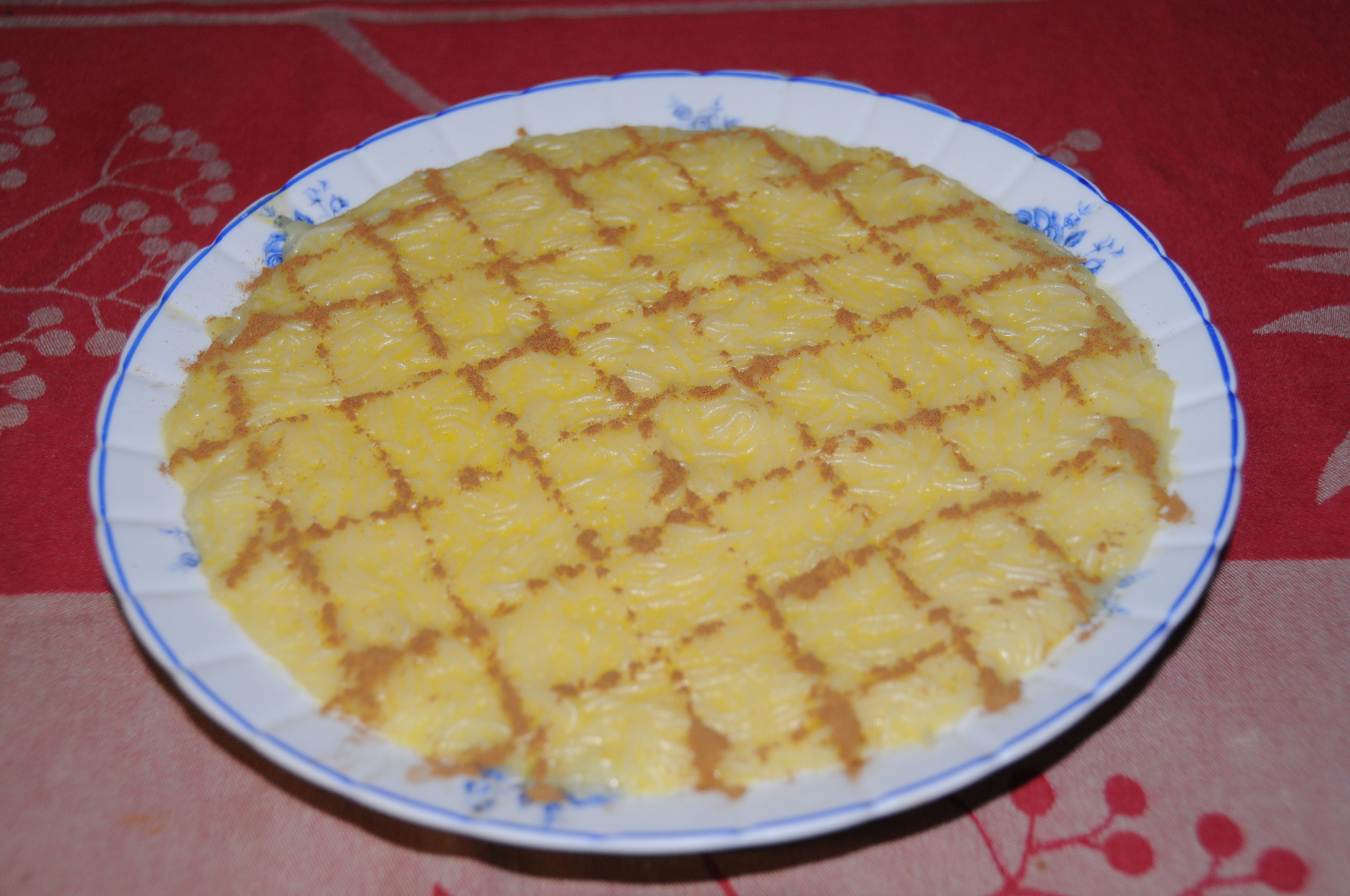 Aletria a traditional Christmas food of Portugal.